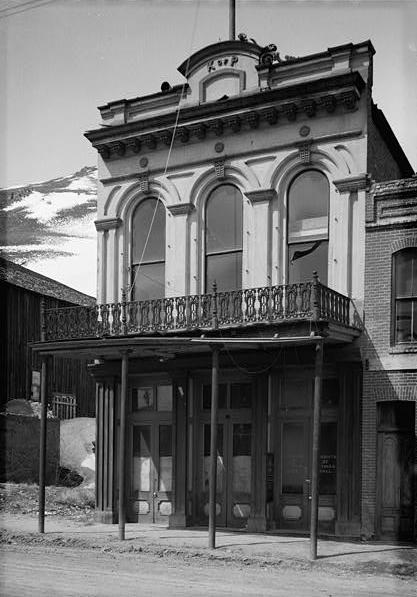 Knights of Pythias Hall, Virginia City, Nevada. U.S. Historic district Contributing property — Virginia City Historic District. 1937 Historic American Buildings Survey—HABS image.